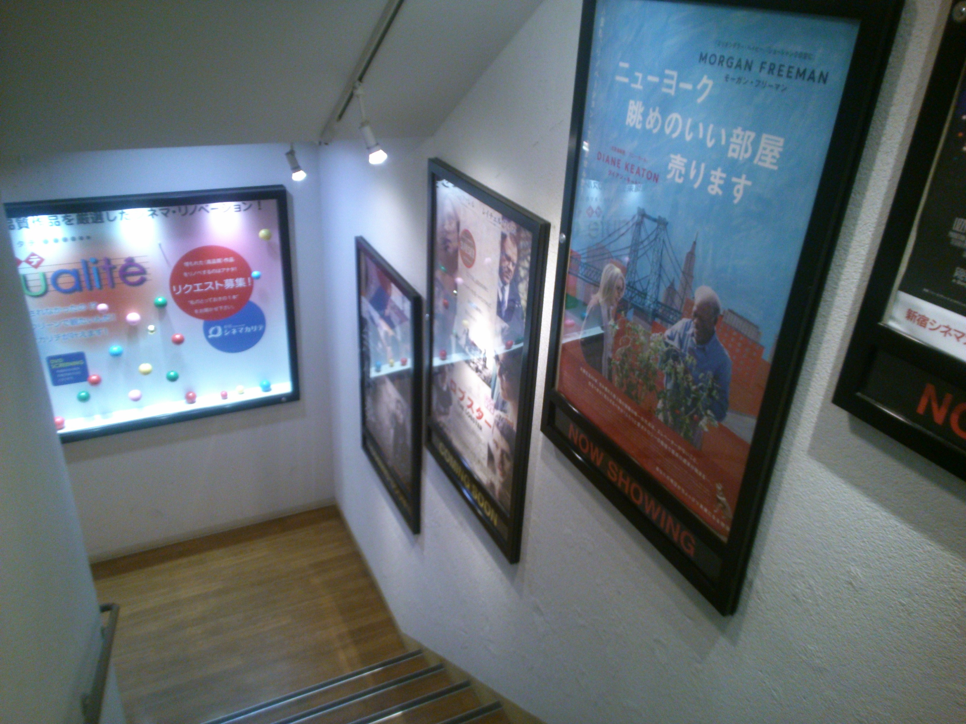 新宿シネマカリテ